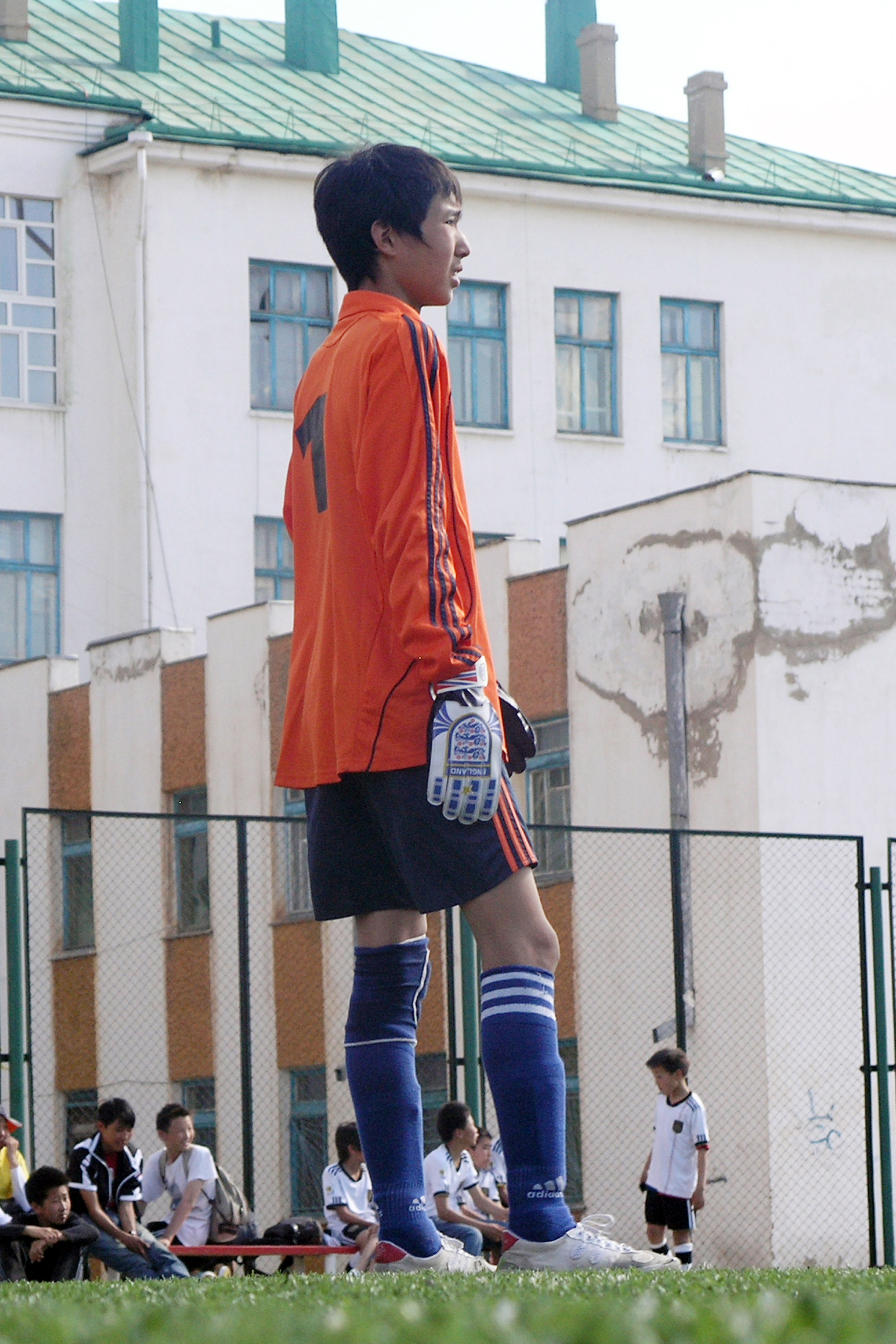 2010.04.14 Duulian-2020 U-11 24 vs 2 by Gamma (8)